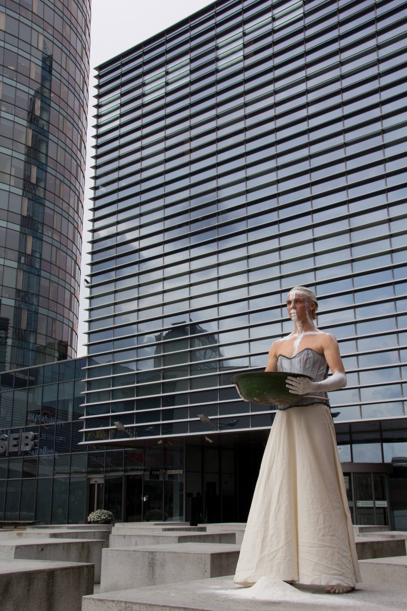 Performance-manifest 'Ritual circle' - shamanism - around Vilnius City municipality building